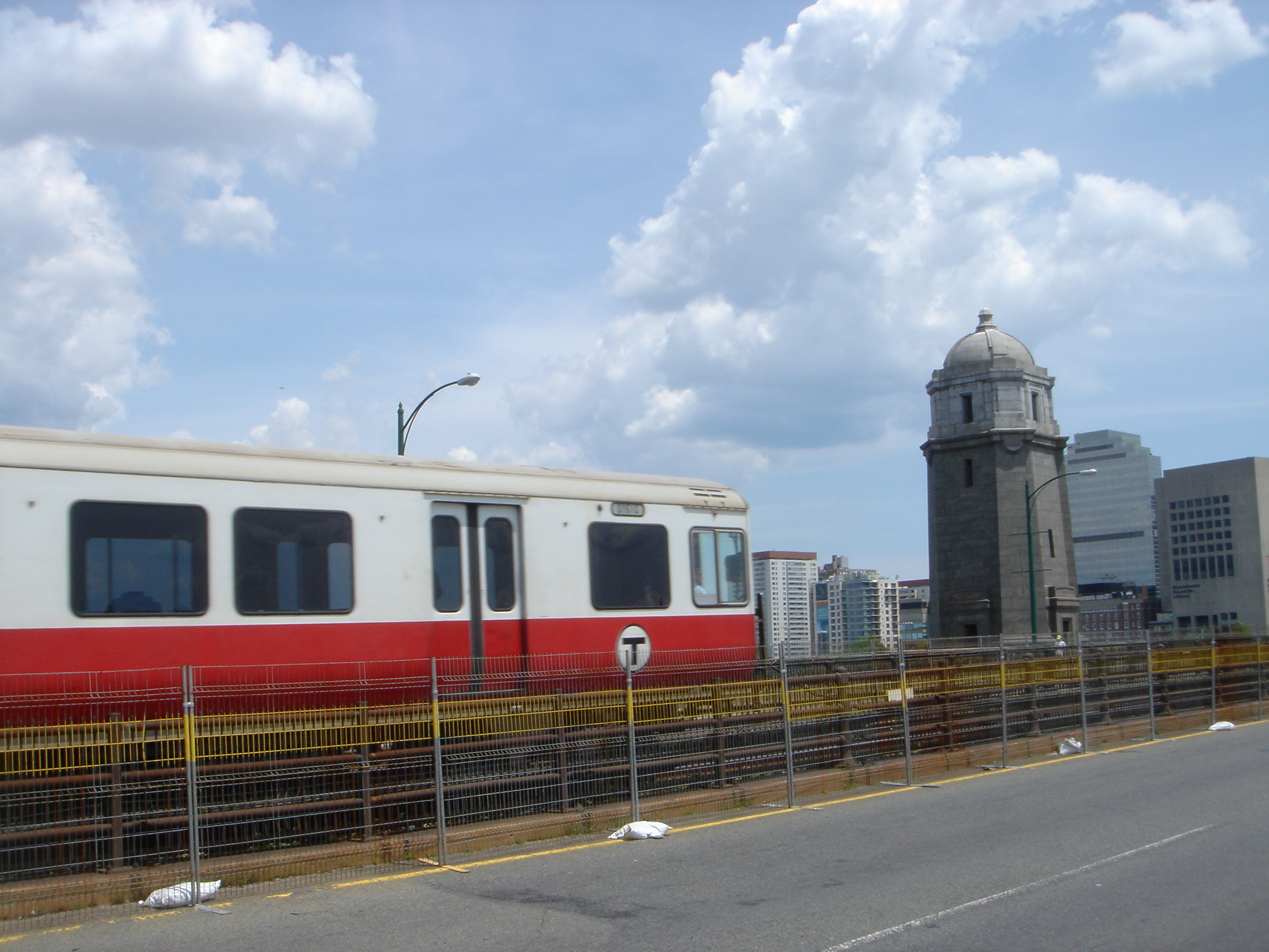 An MBTA Red Line train crossing the Longfellow Bridge